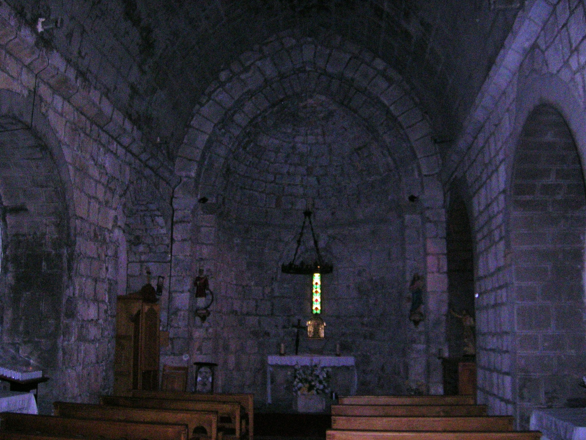 Church of Sant Feliu de Rocabruna, Camprodon, Catalonia.